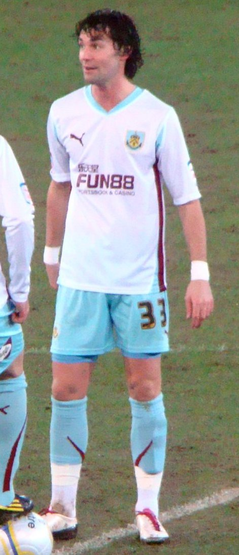 15/02/11 Cardiff V Burnley, Championship, Cardiff City Stadium, Cardiff, Wales